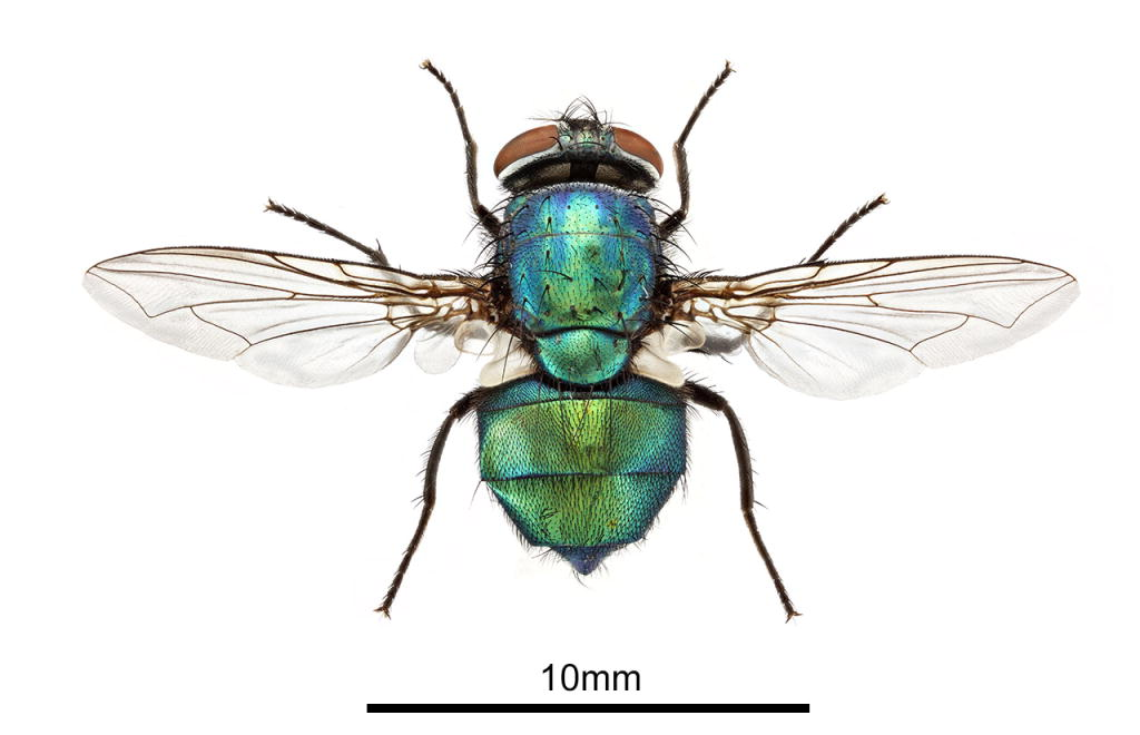 Dorsal habitus image of Lucilia caesar (Linnaeus, 1758)